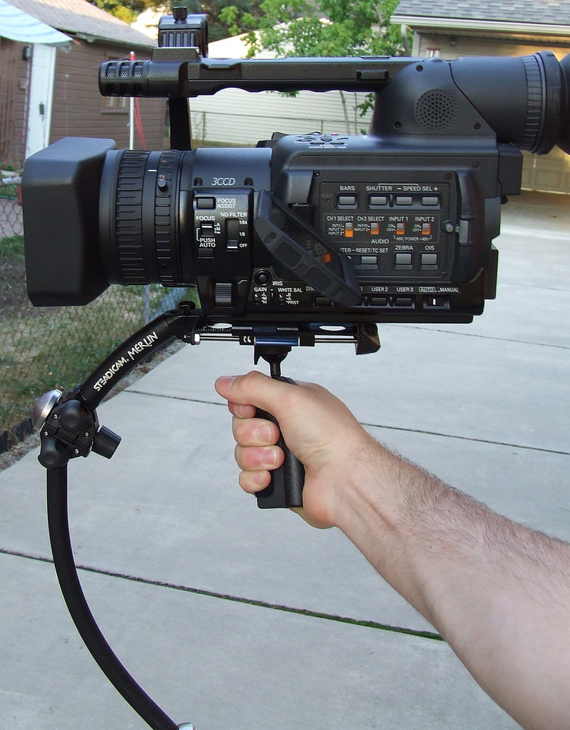 Here is the steadicam all set up. It has one end weight at the middle and all the rest at the bottom. The is one P2 card and no tape in the camera. The rest of the shots show most of the fine adjustments.